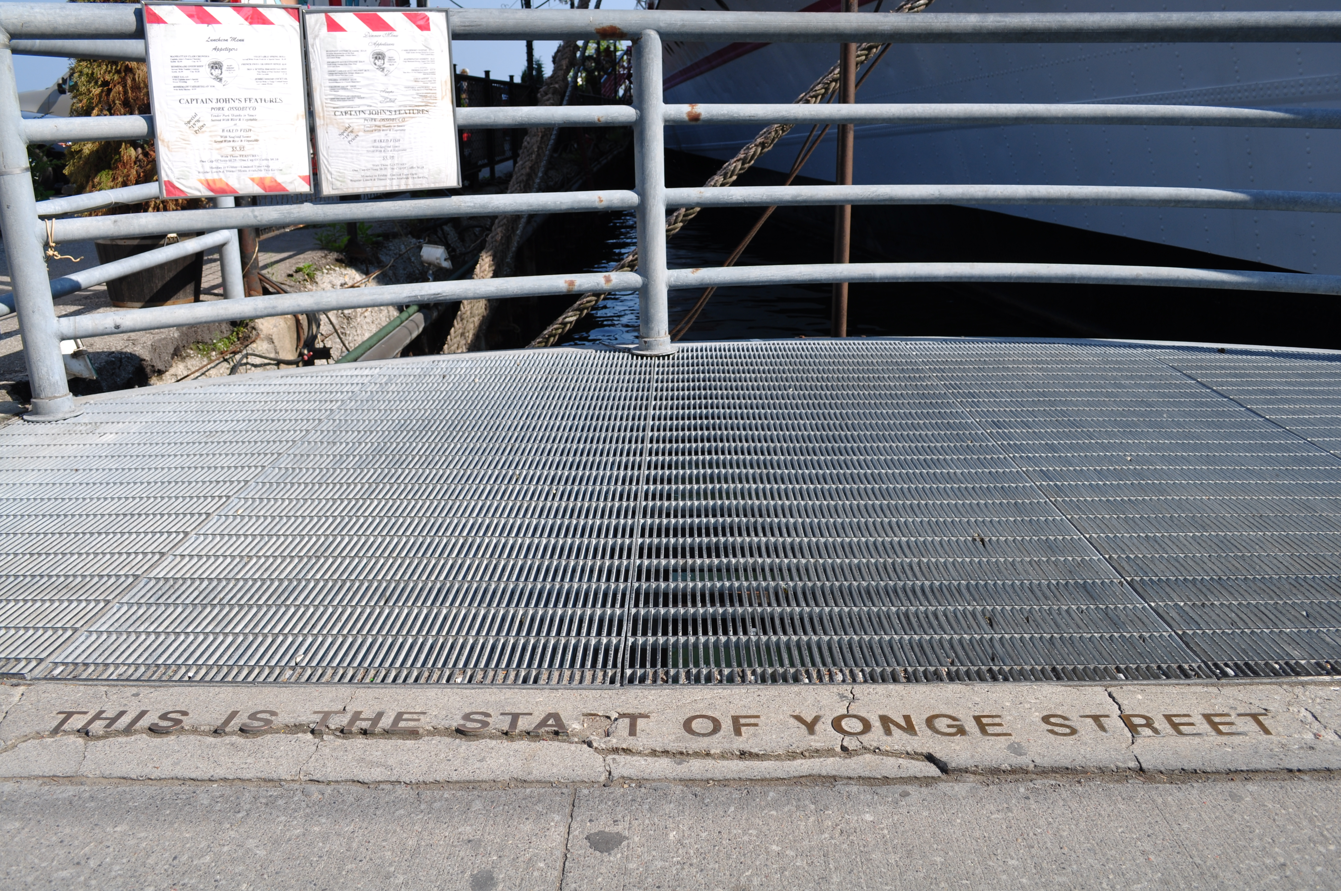 This is the Start of Yonge Street